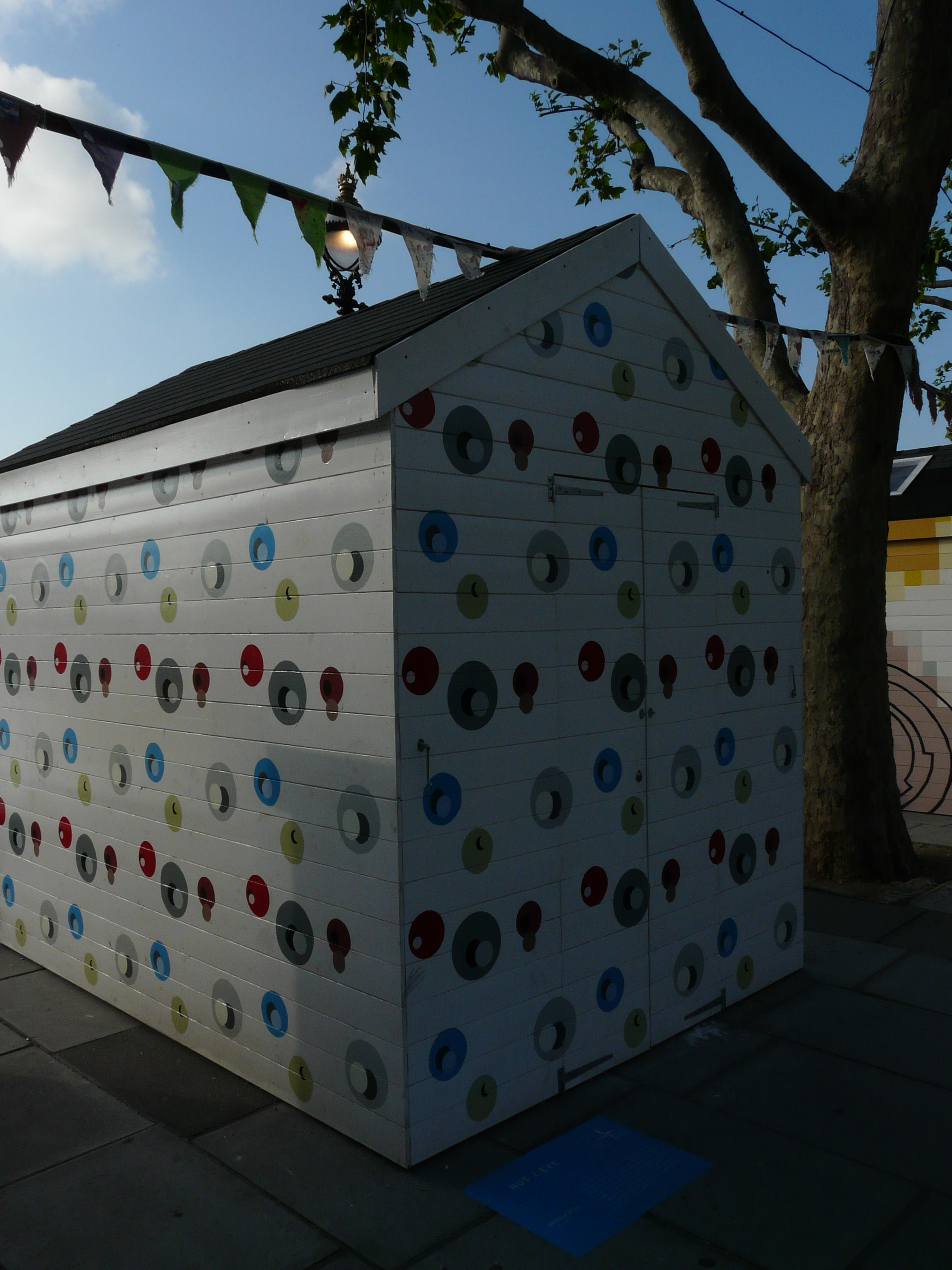 'Hut Eye' by Grenville Davey, Southbank Centre